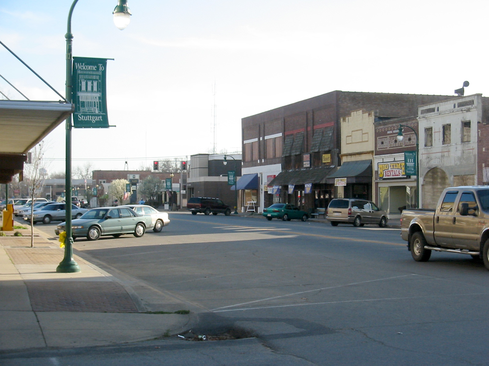 Stuttgart, Arkansas, main street